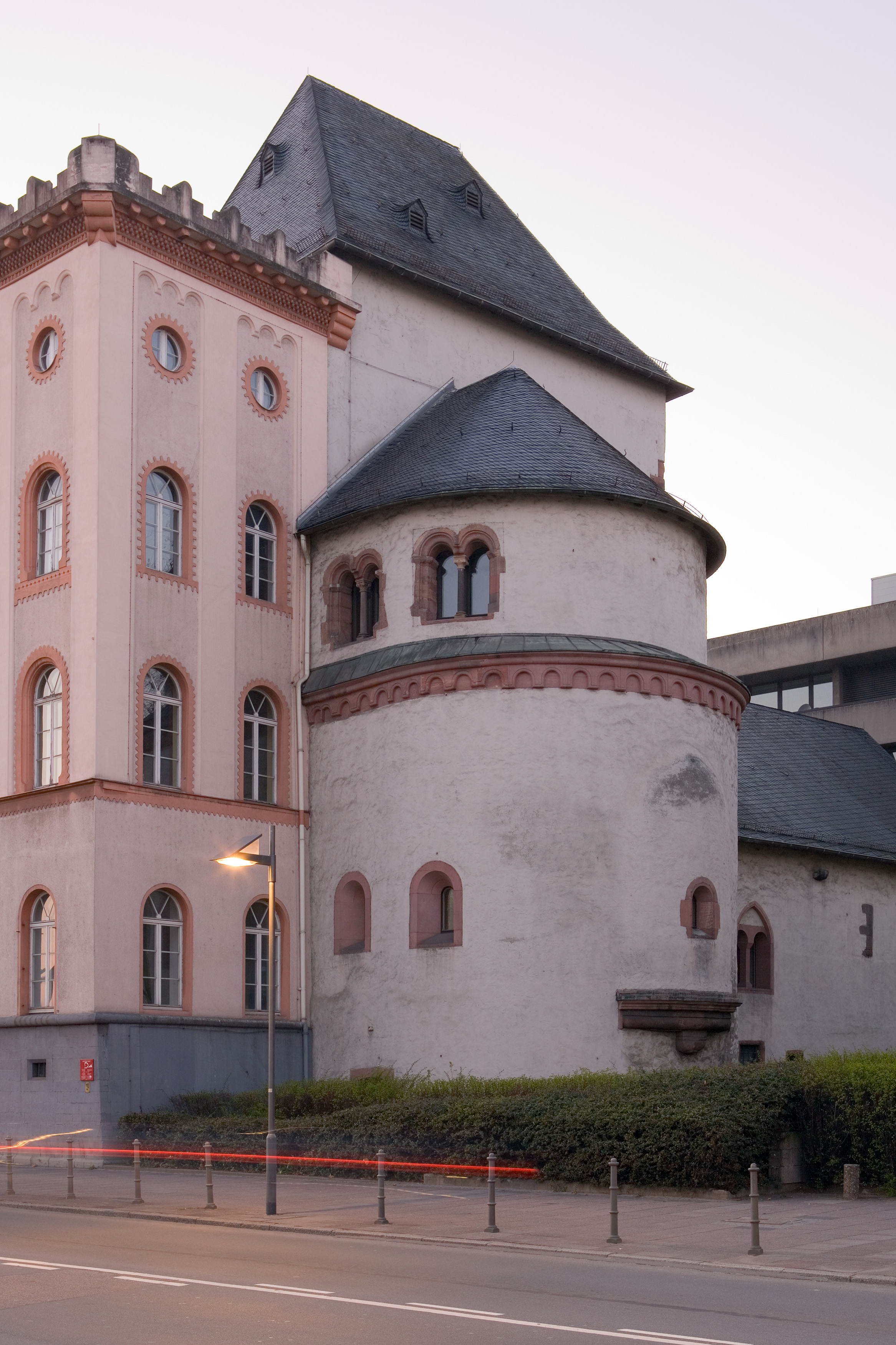 Frankfurt on the Main: Romanesque chapel of the Saalhof as seen from the banks of the Main, oldest building of the old town completely preserved (roof beams dendrochronologically dated 1208)